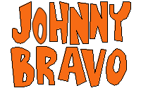 Johnny Bravo vectorized logo